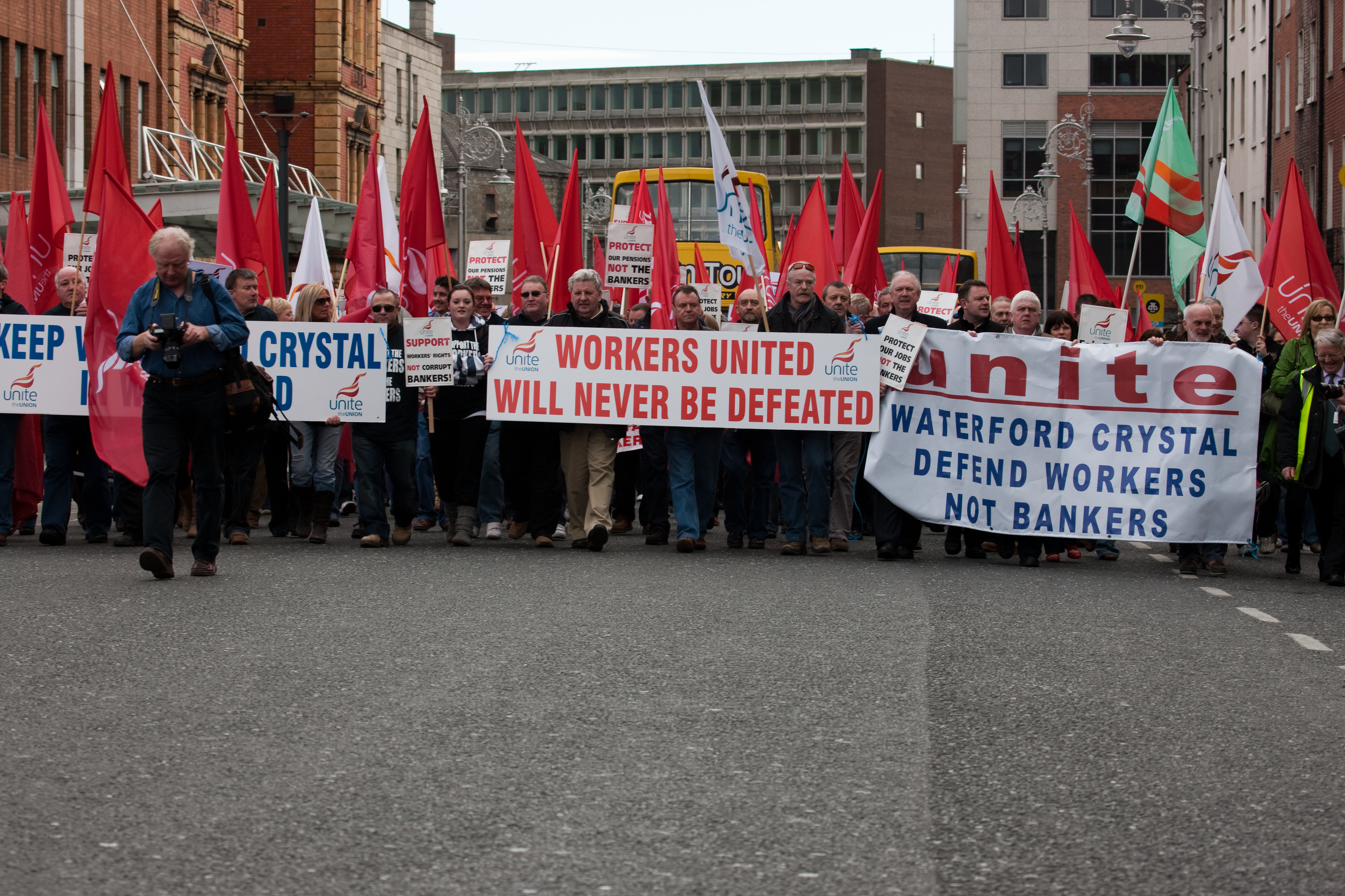 According the the Irish Times: "Up to 120,000 people have marched in Dublin in protest at how the Government is handling the economic crisis. The march, which was organised by the Irish Congress of Trade Unions (Ictu), took nearly one and a half hours to make its way from Parnell Square to Merrion Square". Uploaded per request at WP:IFU.